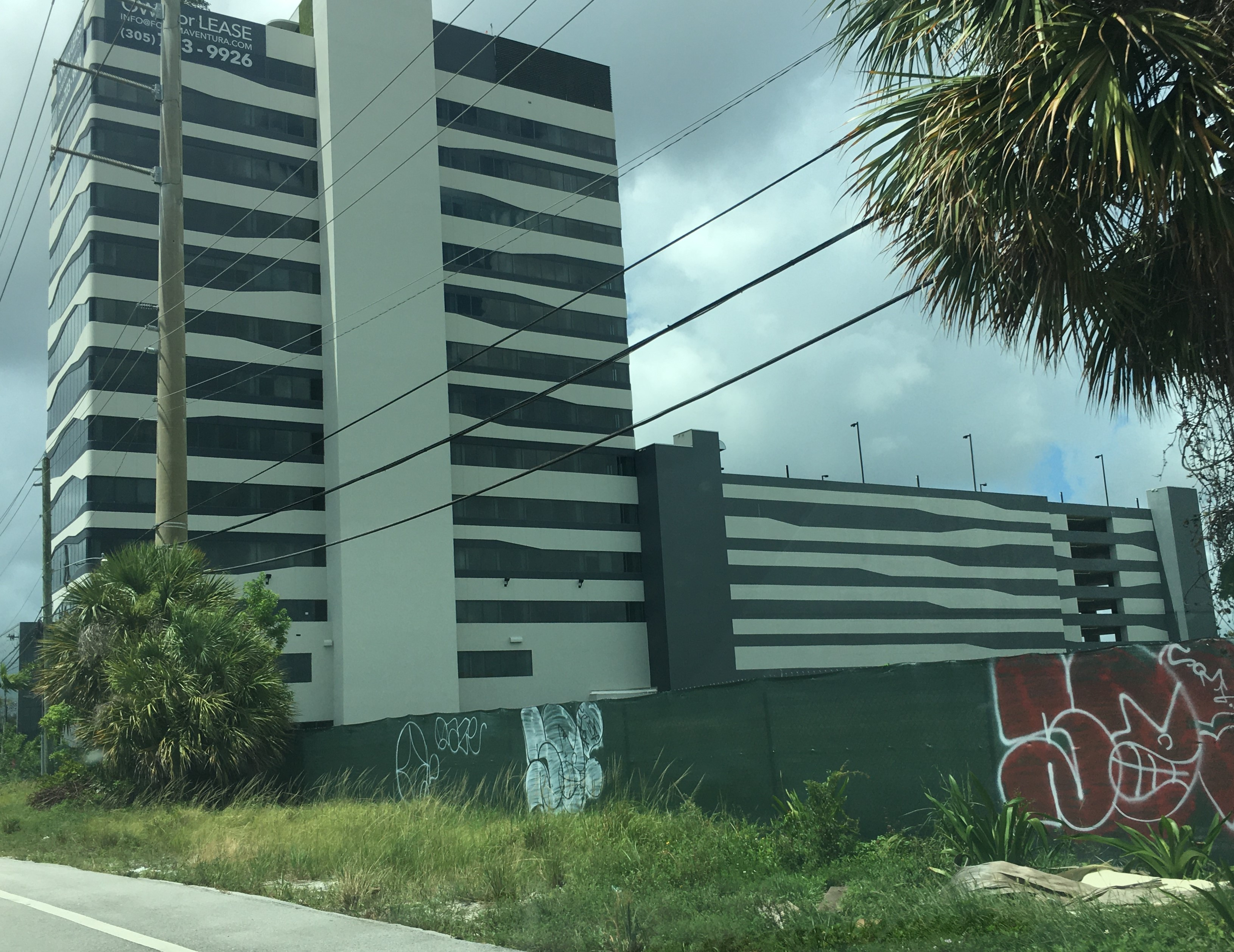 The site of the Aventura station (fenced empty lot in foreground) along Dixie Highway in Ojus, Florida on 24 July 2020. FORUM Aventura is the building in the background.